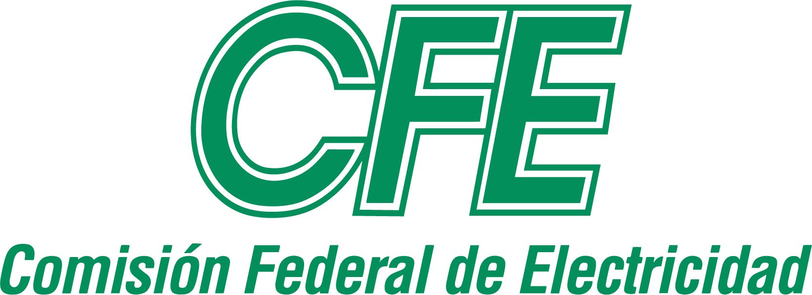 Logo of Comisión Federal de Electricidad (Federal Electricity Commission)